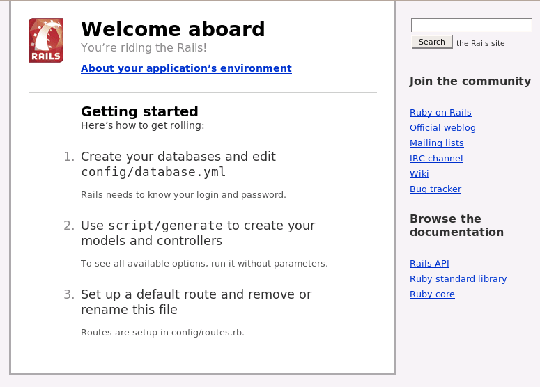 Default index page of a Ruby on Rails application.